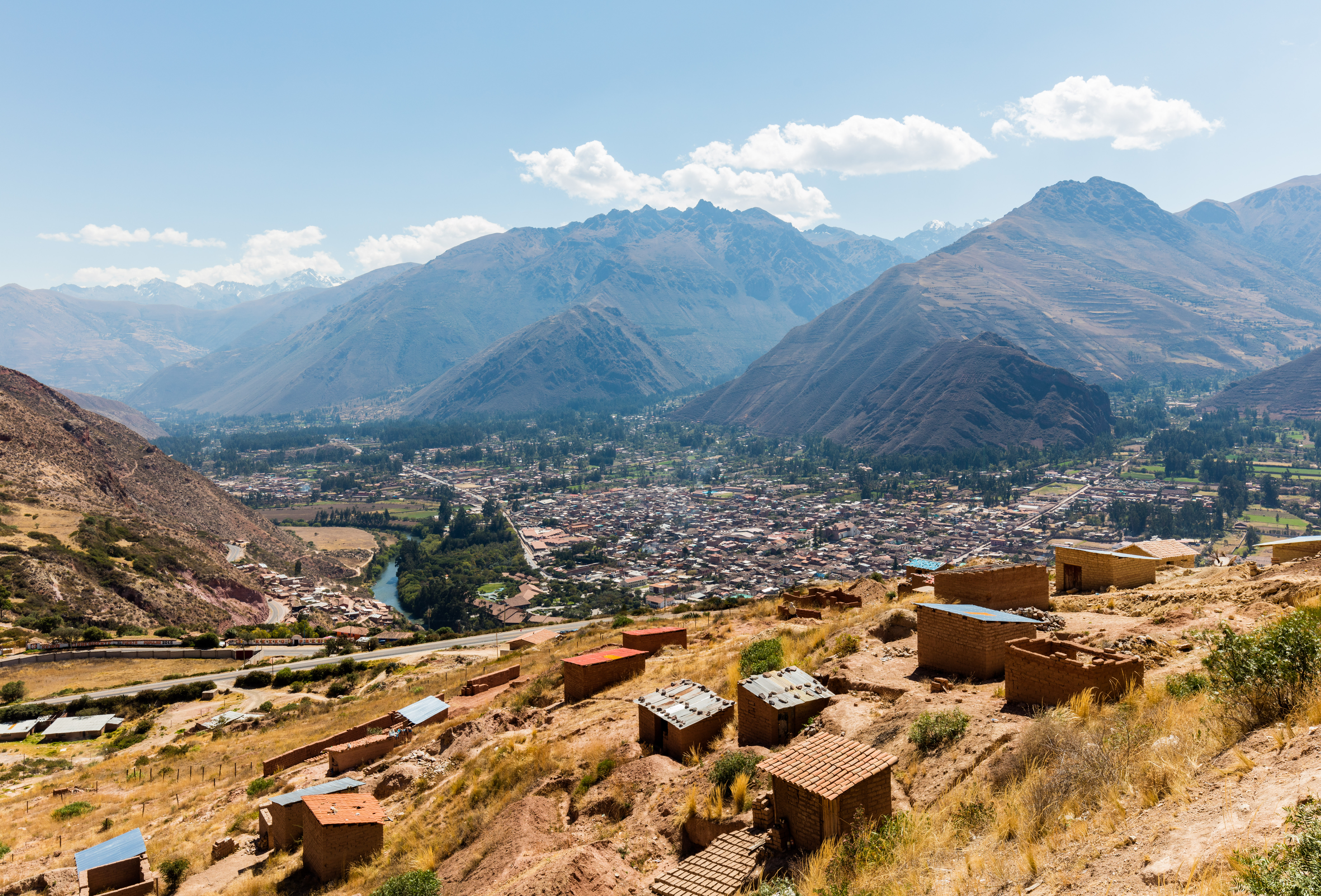 Urubamba, Cuzco, Peru